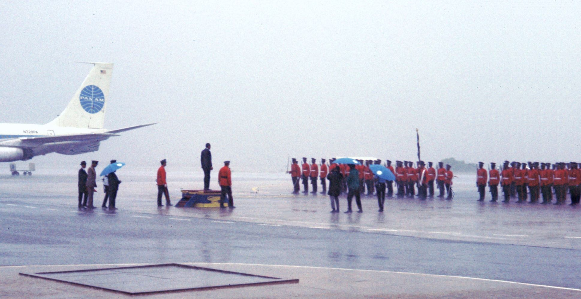 improved scan of file:1969JamaicaPMHughShearer.jpg - Hugh Shearer (on platform), while Prime Minister of Jamaica in 1969, giving an impromptu speech at Palisadeos Airport, Kingston, to members of the Jamaica Defence Force, during a light rainstorm.